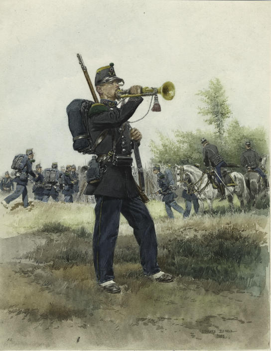 Chasseur a pied. Bugler, full dress (1885). This illustration appeared in L'Armee Française by Jules Richard, illustrated by Édouard Detaille, first published in 1885.